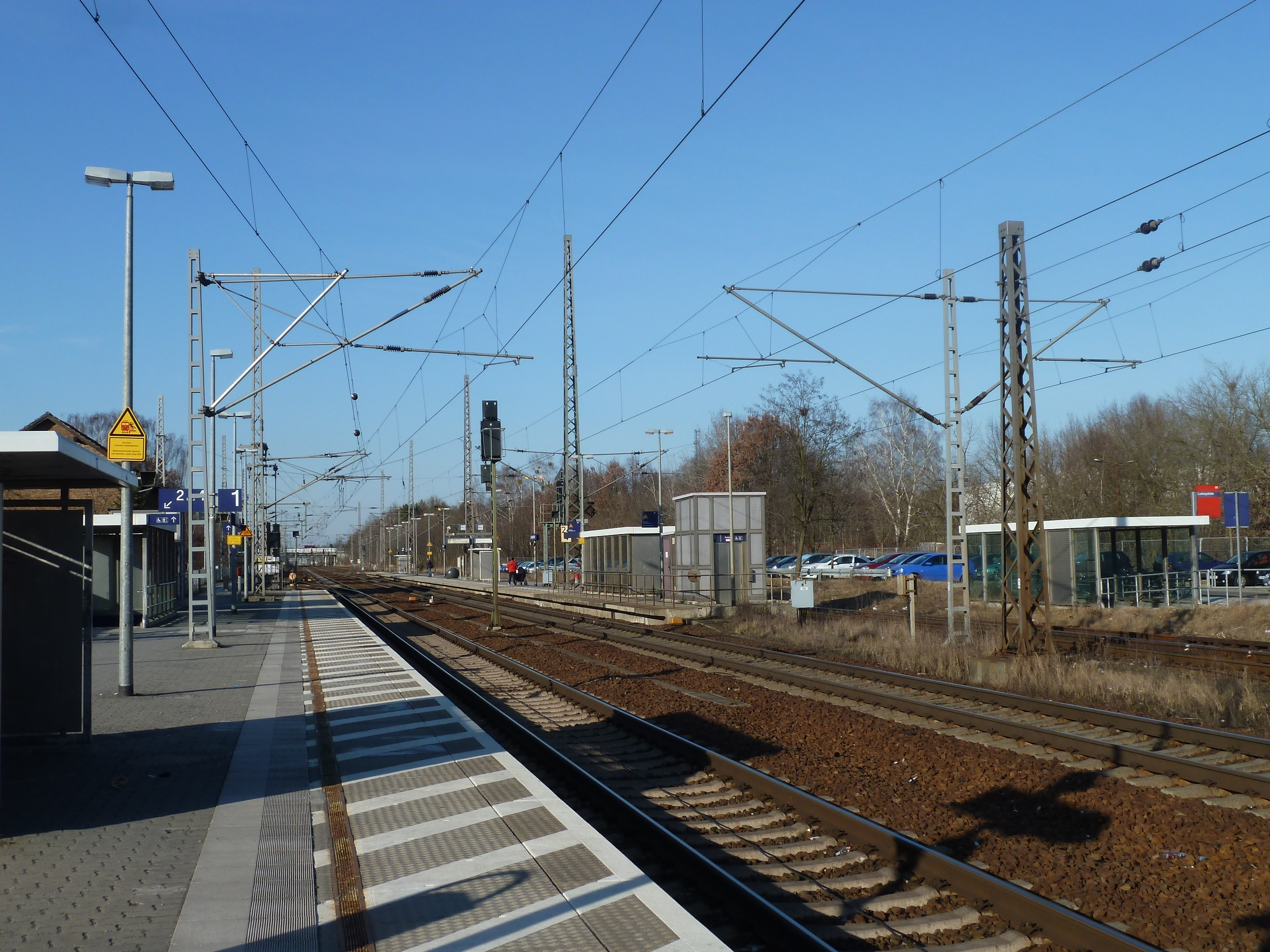 Ludwigsfelde train station, platform